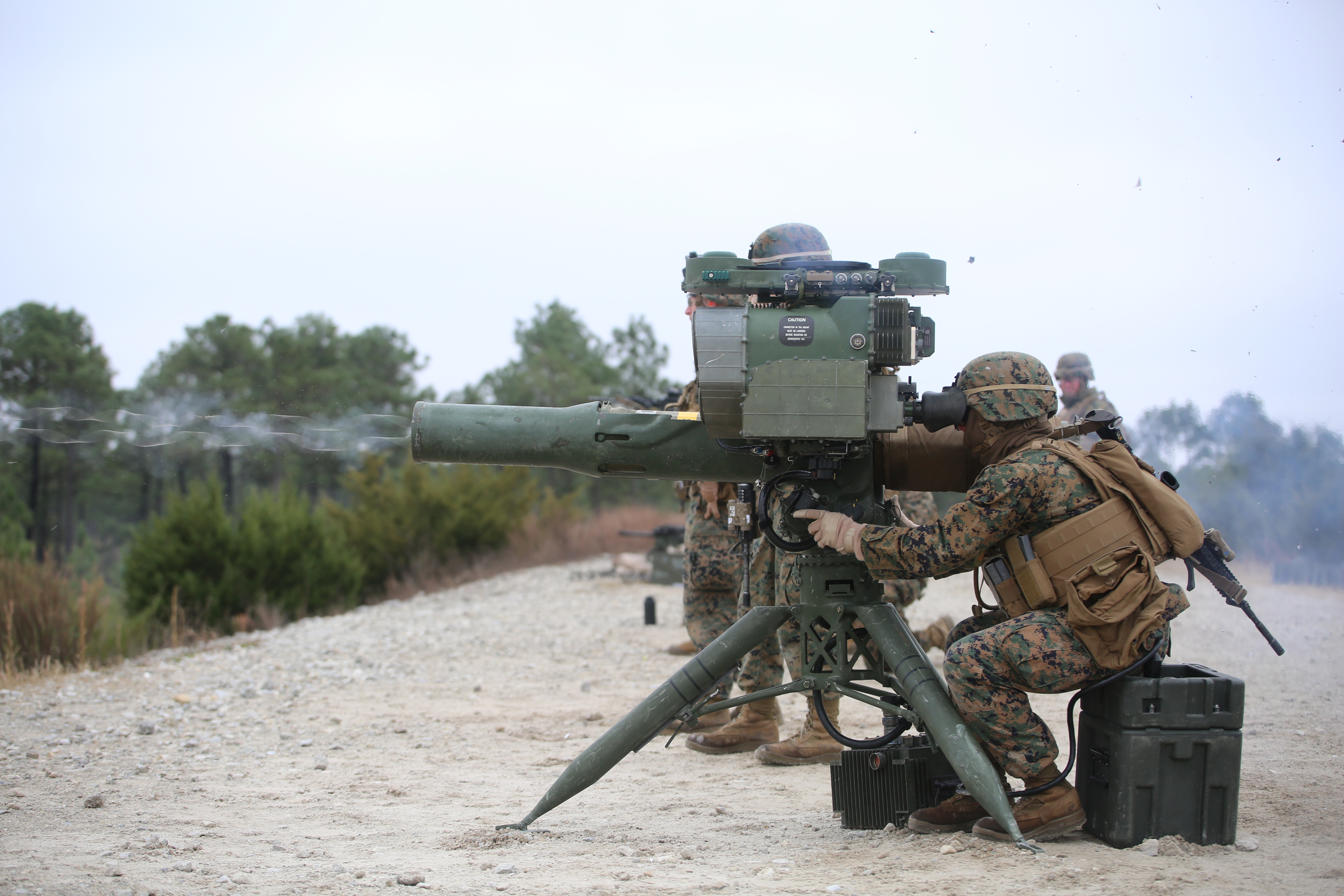 Sgt. Danielle V. Beck, anti-tank missileman with Anti-Armor Section, Weapons Company, Ground Combat Element Integrated Task Force, fires an M41A4 Saber missile launcher during a live-fire exercise at Range G-3, Marine Corps Base Camp Lejeune, North Carolina, Jan. 14, 2015. Weapons Co. Marines conducted live-fire training in preparation for their upcoming assessment at Marine Corps Air Ground Combat Center Twentynine Palms, California. From October 2014 to July 2015, the GCEITF will conduct individual and collective level skills training in designated ground combat arms occupational specialties in order to facilitate the standards based assessment of the physical performance of Marines in a simulated operating environment performing specific ground combat arms tasks. (U.S. Marine Corps photo by Sgt. Alicia R. Leaders/Released)